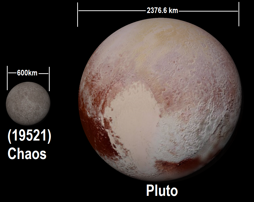 en:19521 Chaos size comparison to Pluto